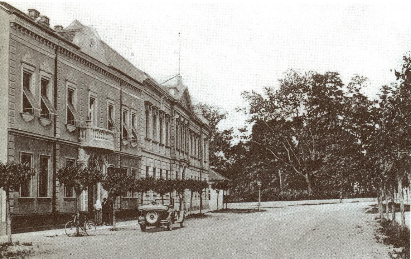 Building of the District Court of Justice, Alsólendvalabel QS:Len,"Building of the District Court of Justice, Alsólendva" label QS:Lhu,"Járásbíróság, Alsólendva"